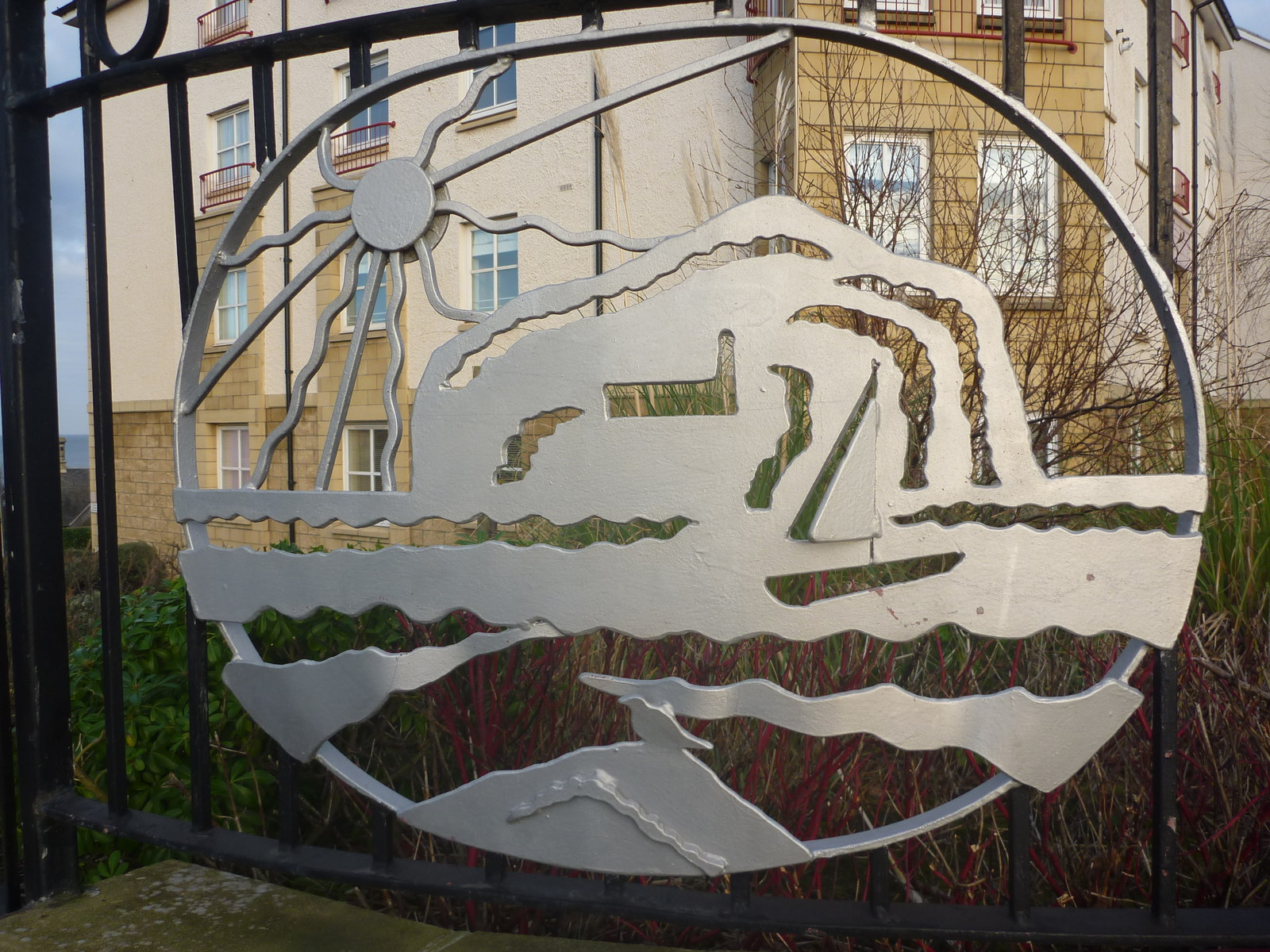 East Lothian Townscape : Bass Rock Motif At Roxburghe Park, Dunbar